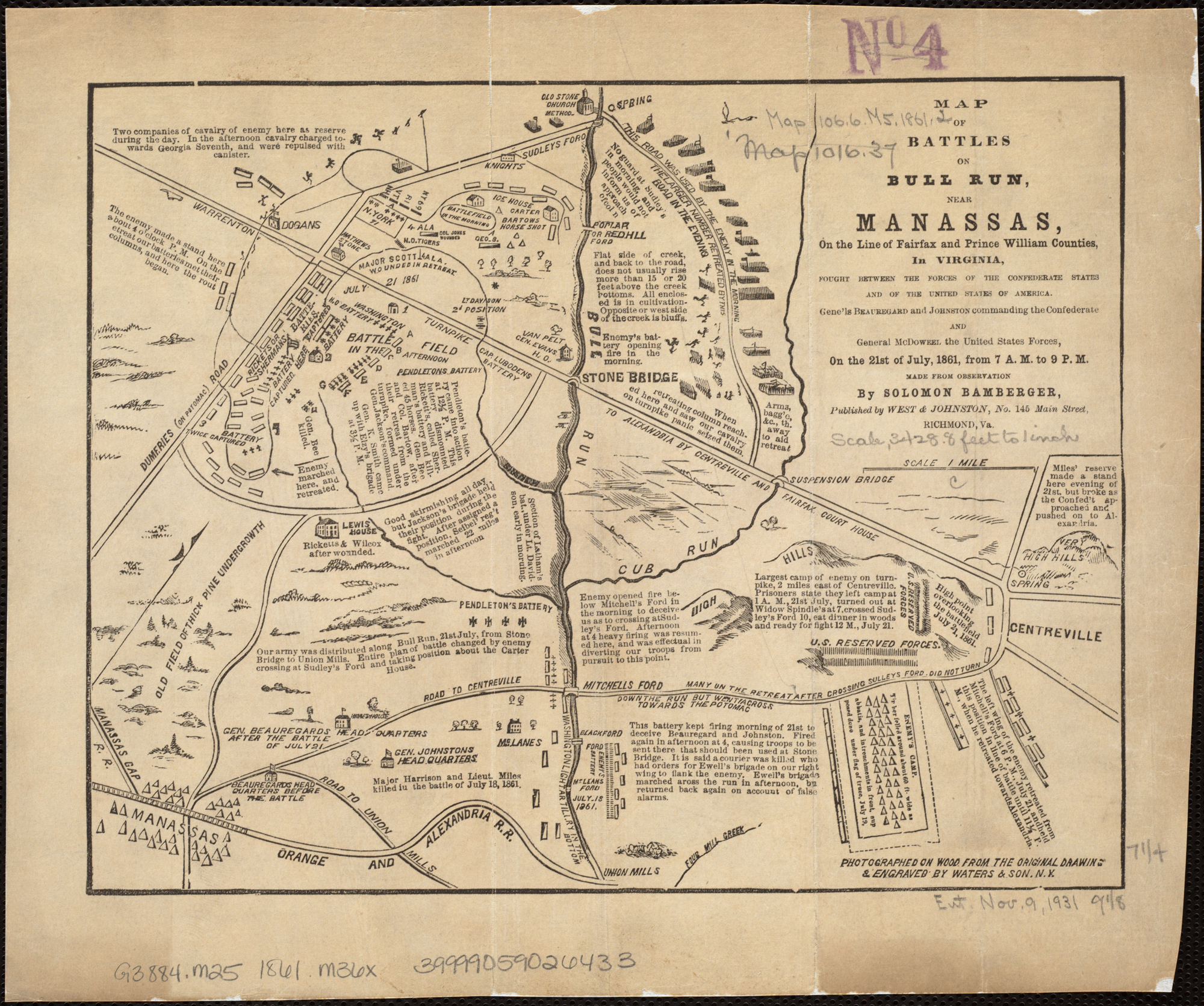 Zoom into this map at . Author: Bamberger, Solomon Publisher: West & Johnston Date: 1861 Location: Manassas (Va.), Virginia Dimension: 19x24cm Scale: ca. 1:42,240 Call Number: G3884.M25 1861 .M36x